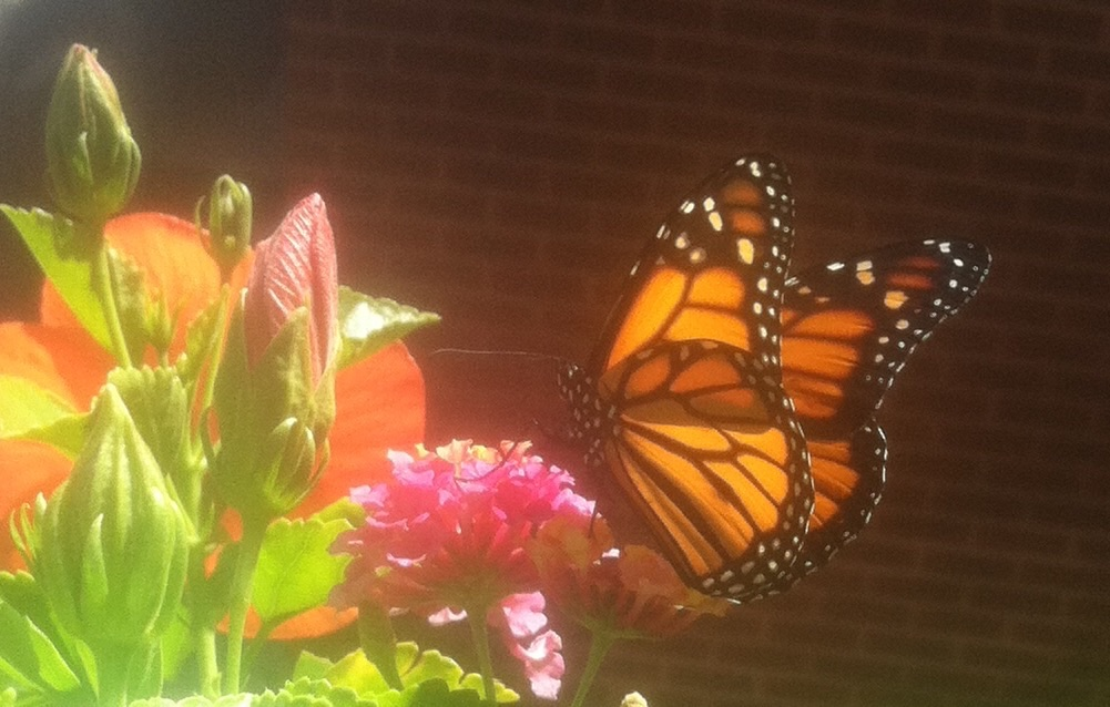 Monarch butterfly on Lantana flowers